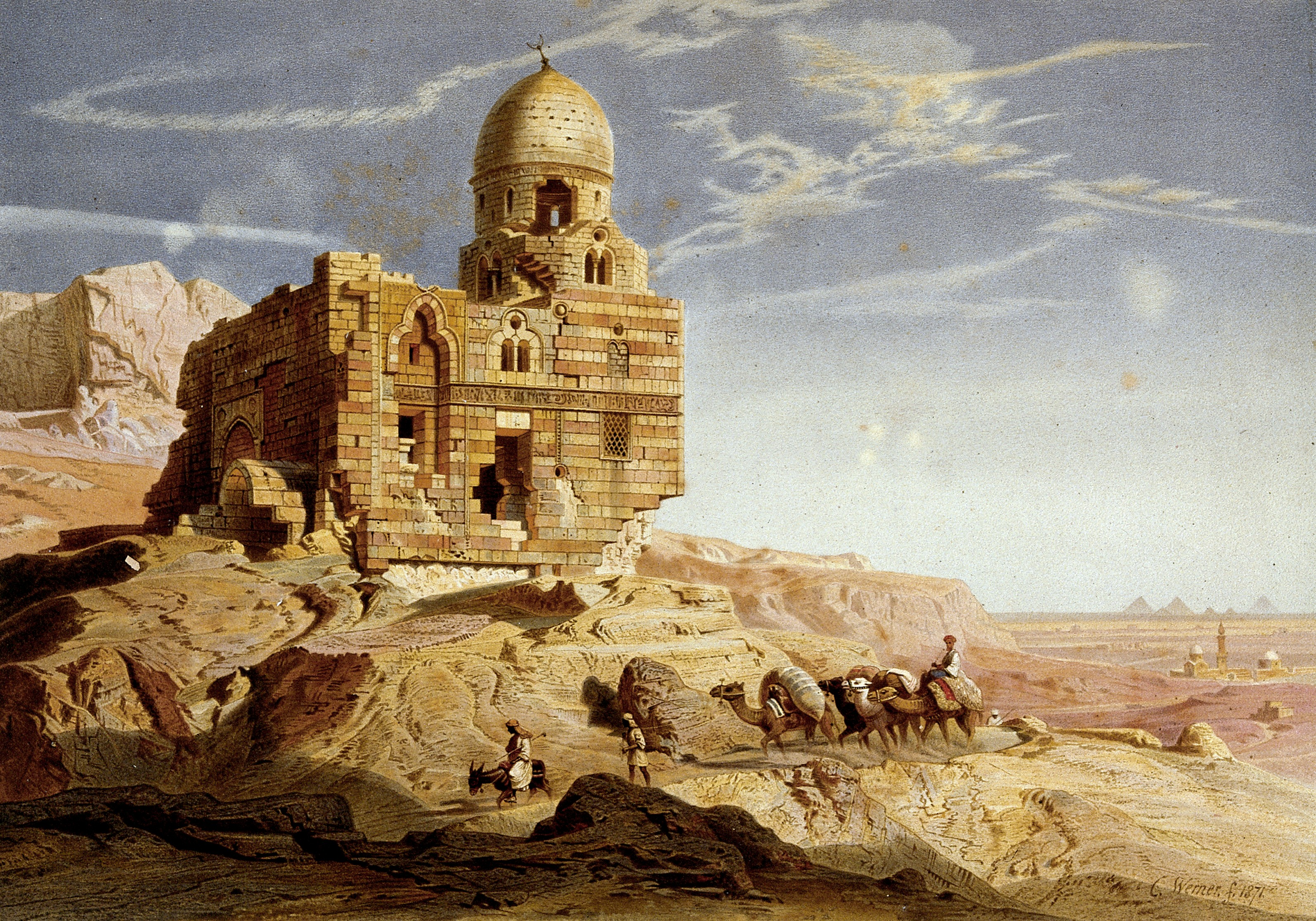 Cairo: tomb of Sultan Barsbai (Barsbay). Iconographic Collections Keywords: Gustav W. Seitz; Camels; Karl Friedrich Heinrich Werner; name; Camel